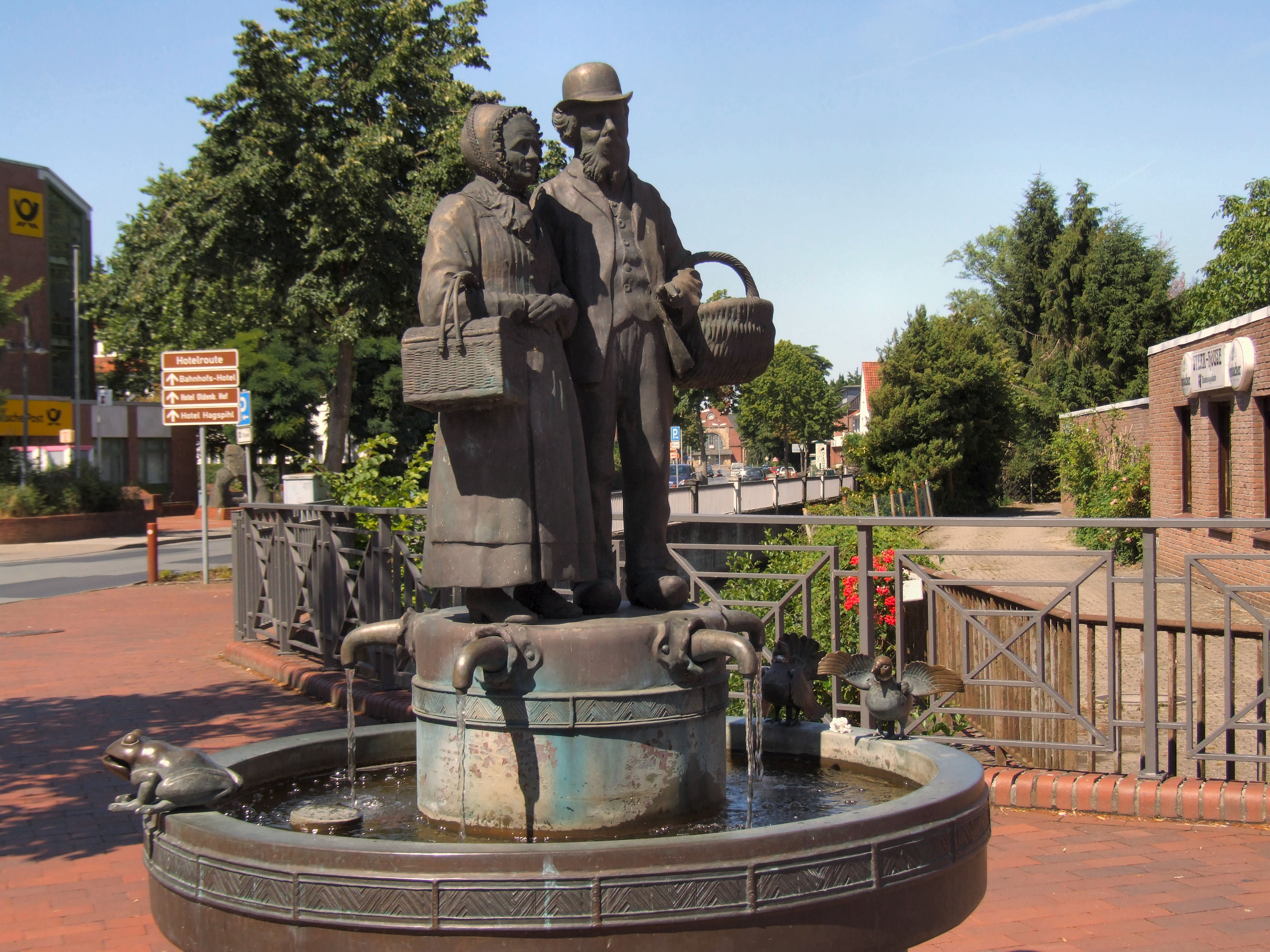 Quakenbrück